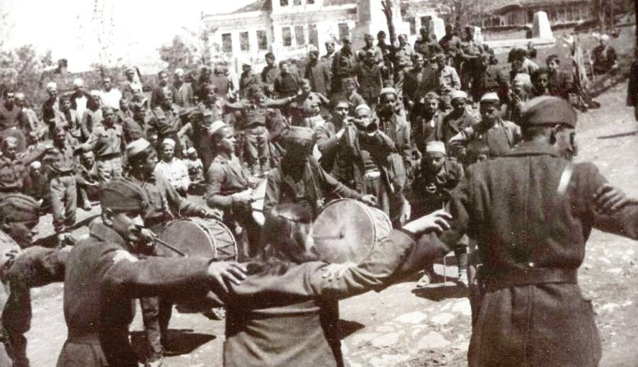 Celebration of May 9 (Victory Day) in Debar, Macedonia, 1945. This media file is produced by Wikipedian in Residence in Category:Wikipedian in Residence at DARM in 2017.